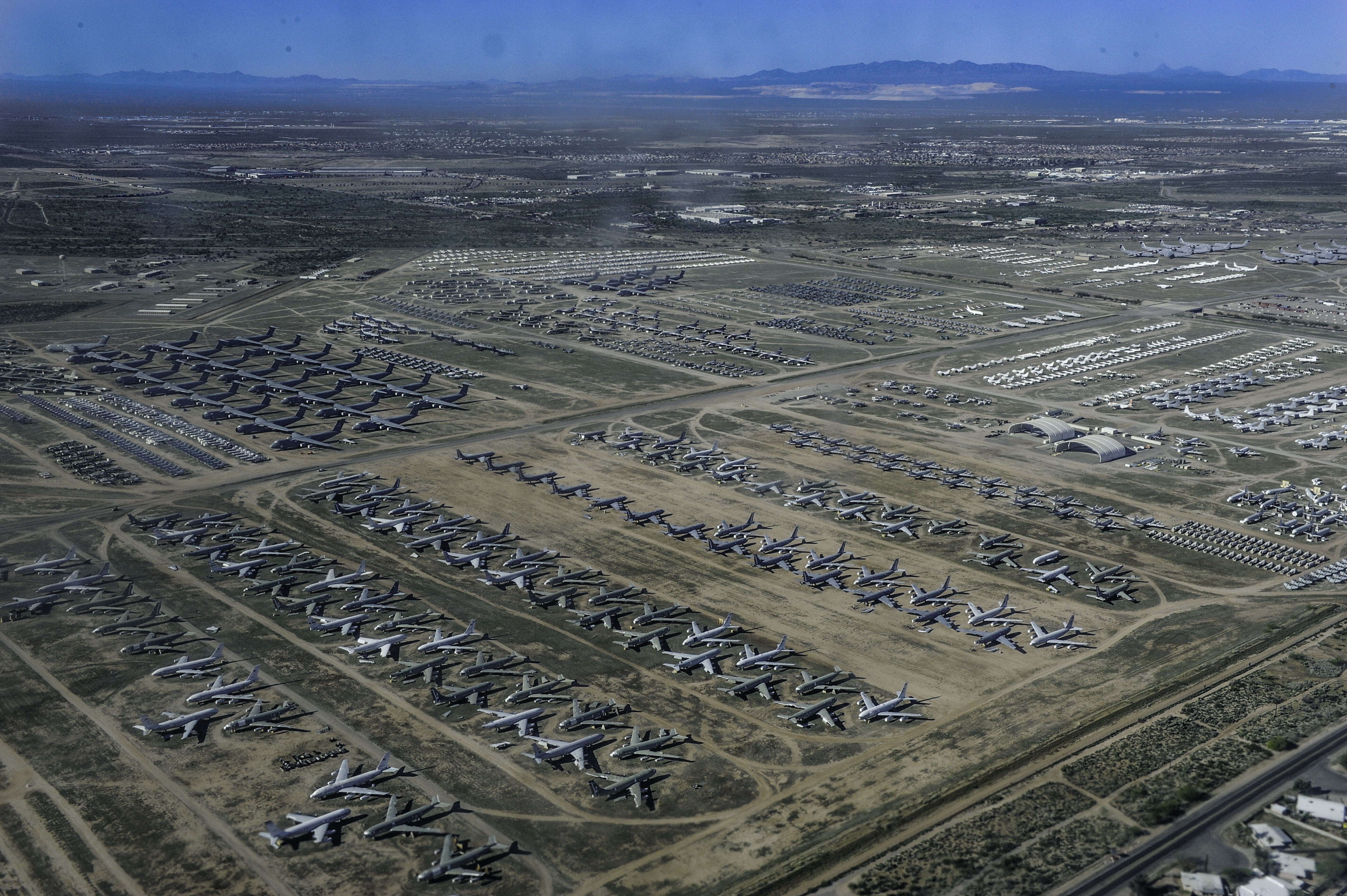 150327-N-MV308-544 DAVIS-MONTHAN AIR FORCE BASE, Ariz. (March 28, 2015) An aerial view of retired military planes taken from aircraft 916, a P-3C Orion maritime patrol aircraft from the Golden Eagles of Patrol Squadron (VP) 9, as it circles the 309th Aerospace Maintenance and Regeneration Group (309 AMARG) at Davis-Monthan Air Force Base in Tucson, Ariz. The 309 AMARG is responsible for the storage and maintenance of aircraft for future redeployment, parts, or proper disposal following retirement by the military. (U.S. Navy photo by Mass Communication Specialist 3rd Class Amber Porter/Released)